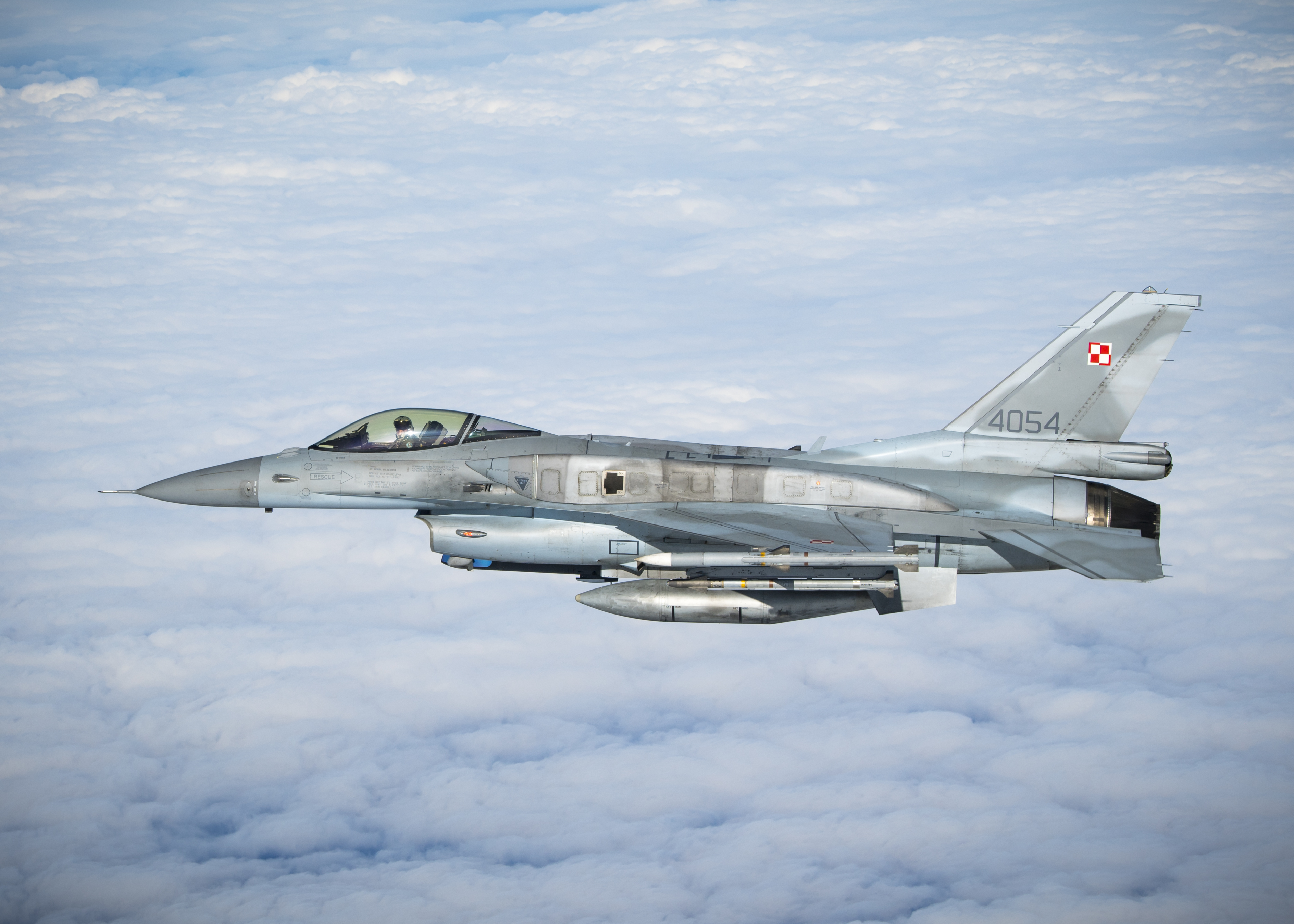 A Polish Air Force F-16C Fighting Falcon engages in a planned intercept of a U.S. Air Force B-52H Stratofortress during Bomber Task Force Europe 20-1, Oct. 28, 2019, over Poland. This deployment allows aircrews and support personnel to conduct theater integration and to improve bomber interoperability with joint partners and allied nations. (U.S. Air Force photo by Airman 1st Class Duncan C. Bevan)